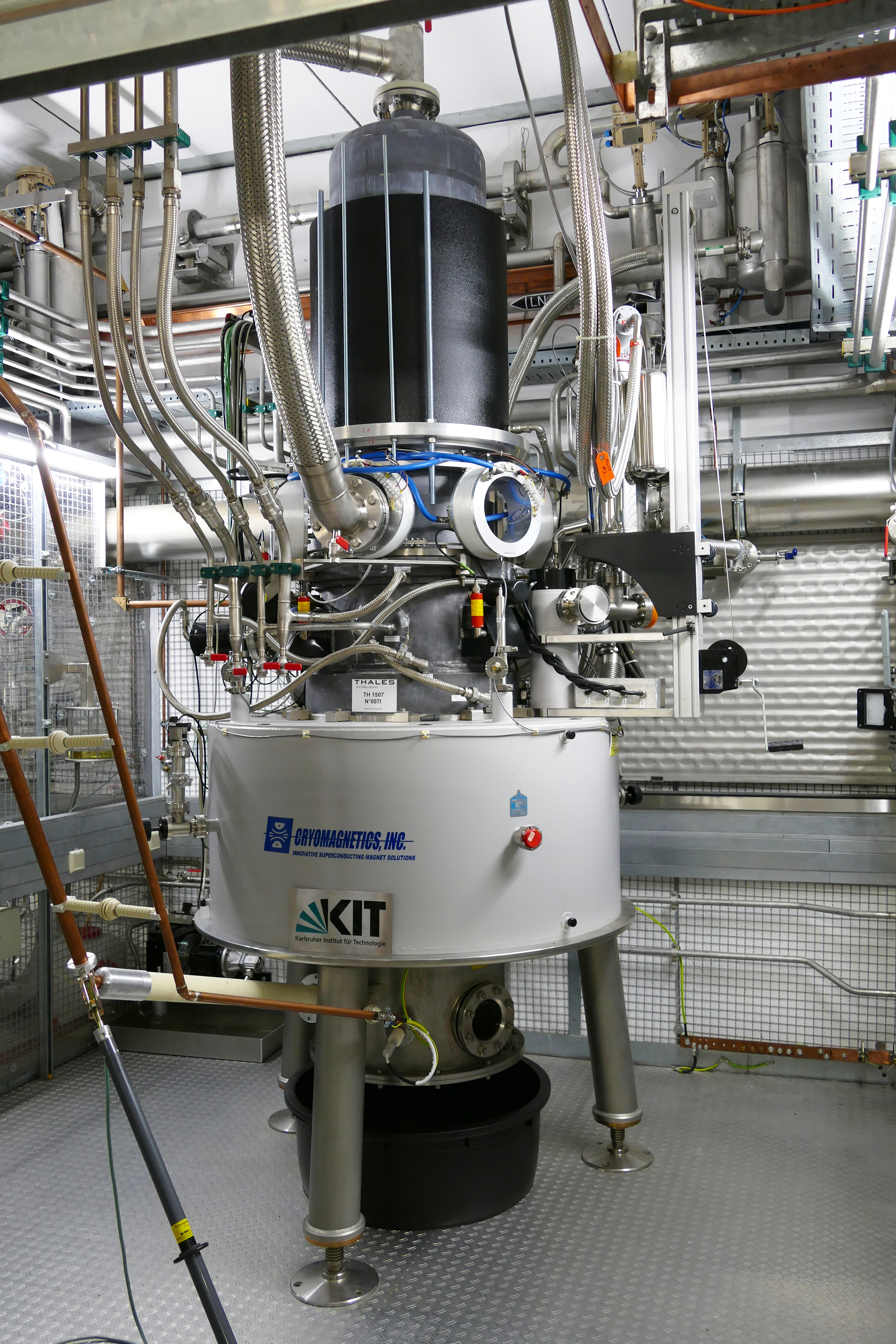 One gyrotron of Wendelstein 7-X, which delivers 1MW of microwave radiation at 140GHz. The device is mounted in the basement and fully operational. In total 12 such gyrotrons will be installed to heat the stellarator plasma.